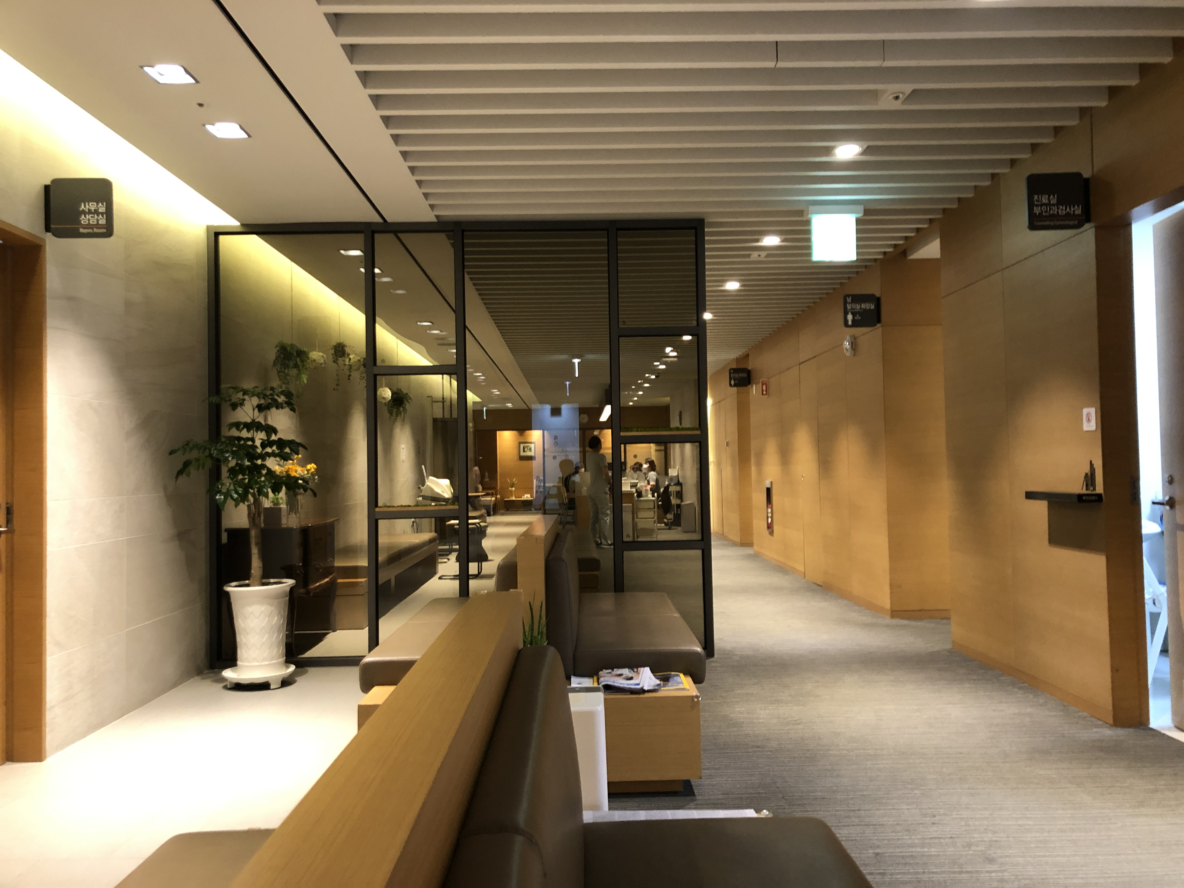 Wonju Sevrance Christian Hospital